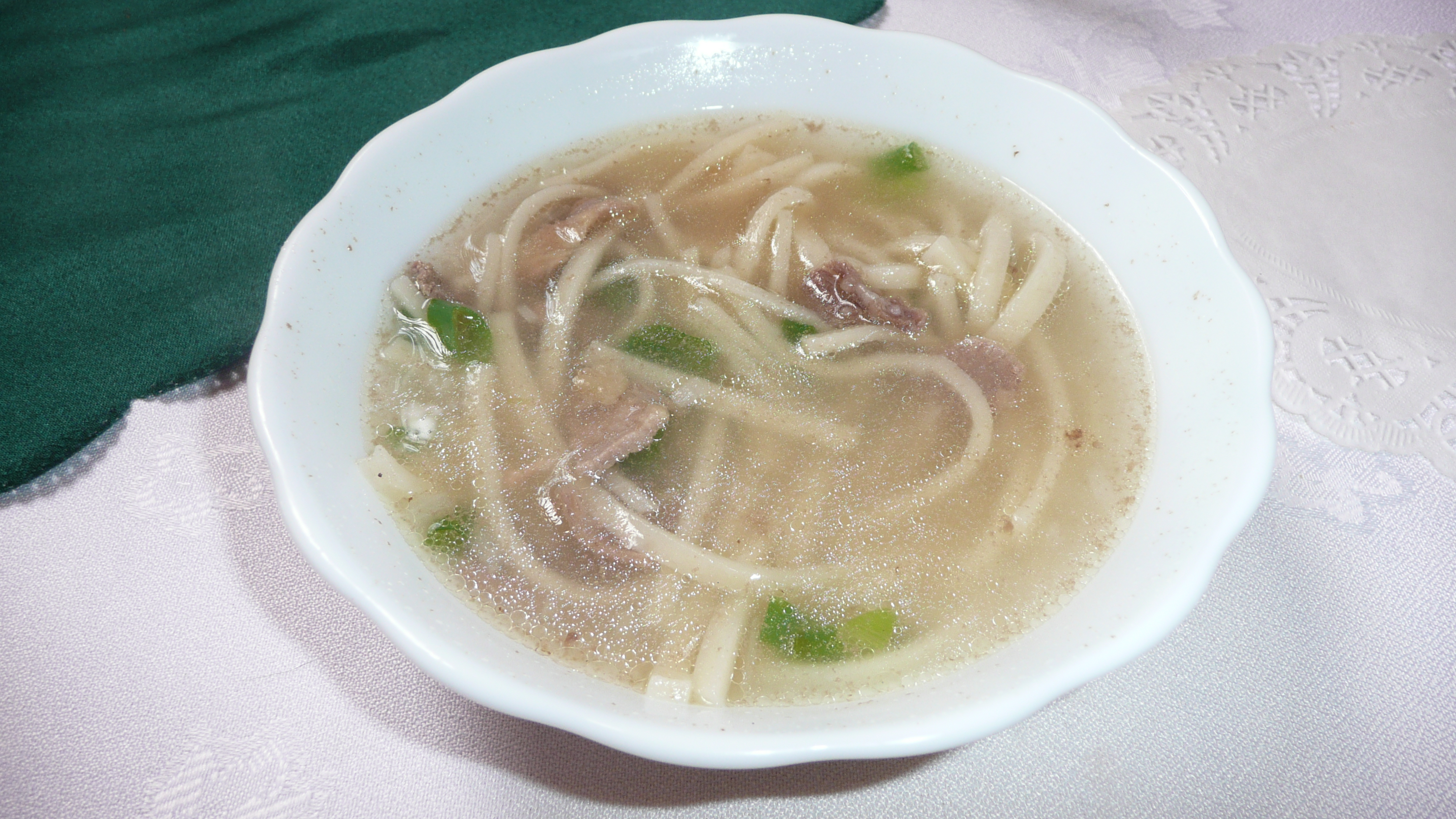 Mongolian noodle soup with mutton)